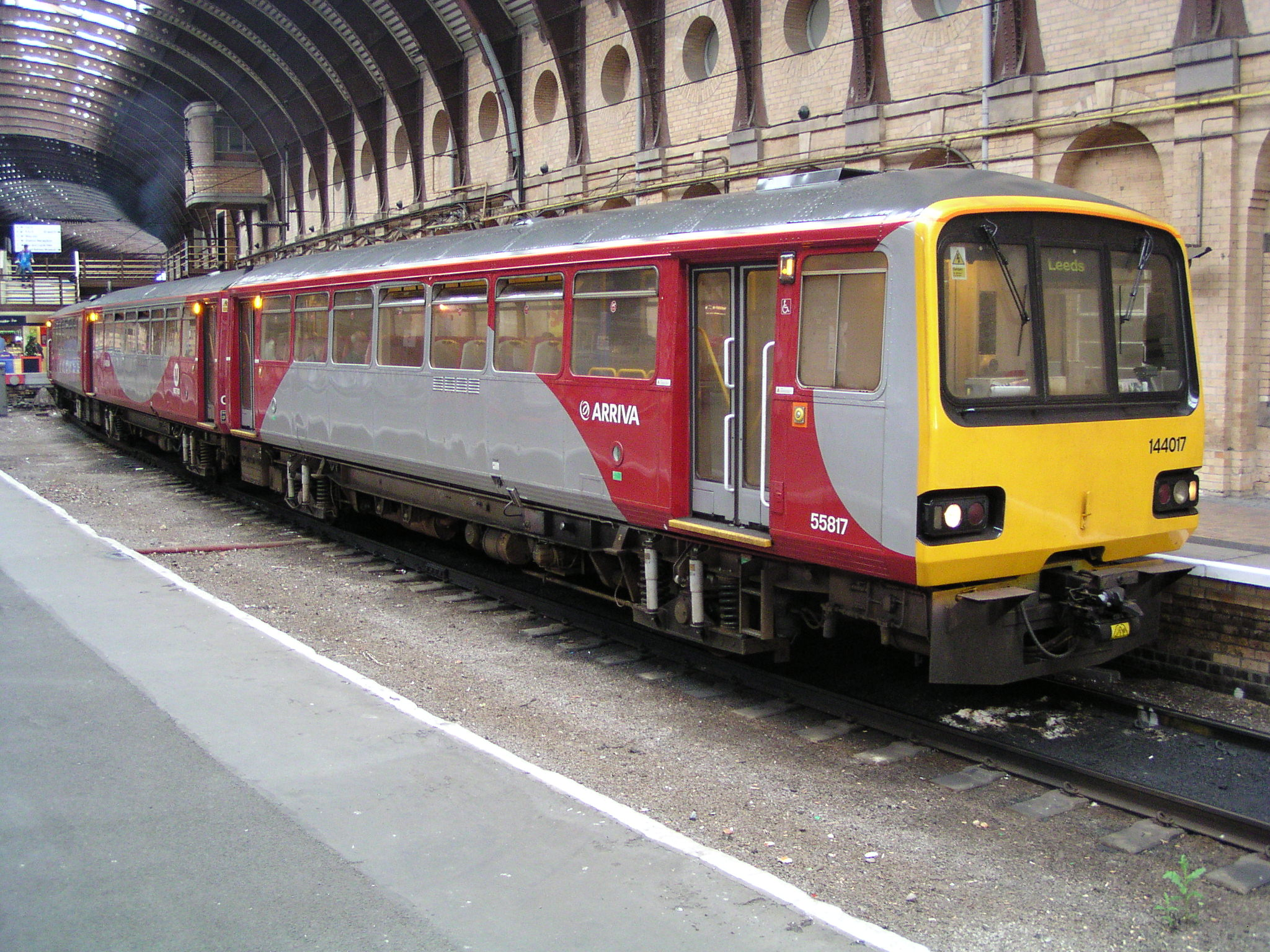 British Class 144 No. 144017 at York station on 3rd June 2004. This unit is one of ten 3-car units. It is painted in the latest West Yorkshire Metro livery.